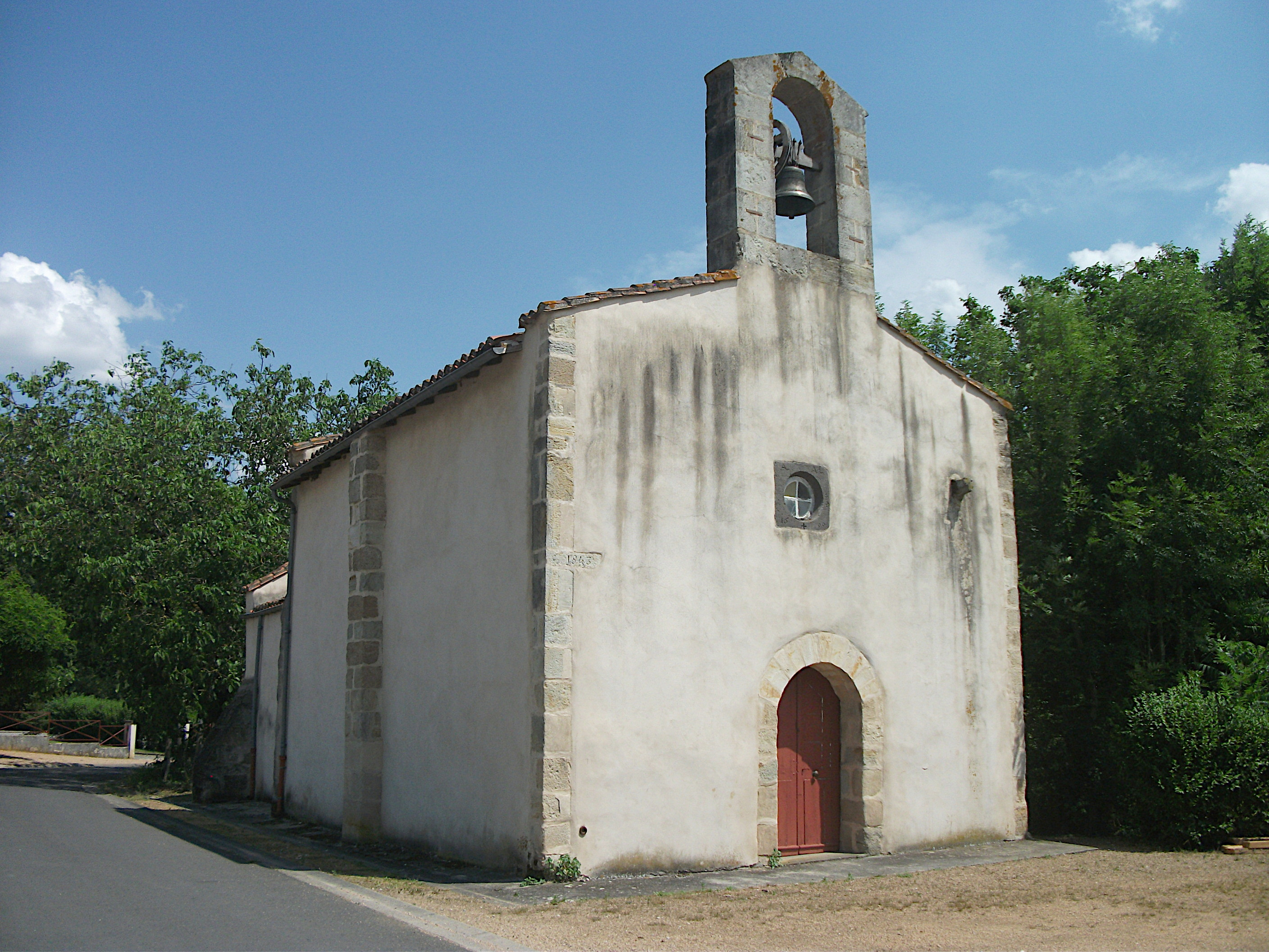 Church of Noalhat, Puy-de-Dôme, Auvergne-Rhône-Alpes, France. [18597]